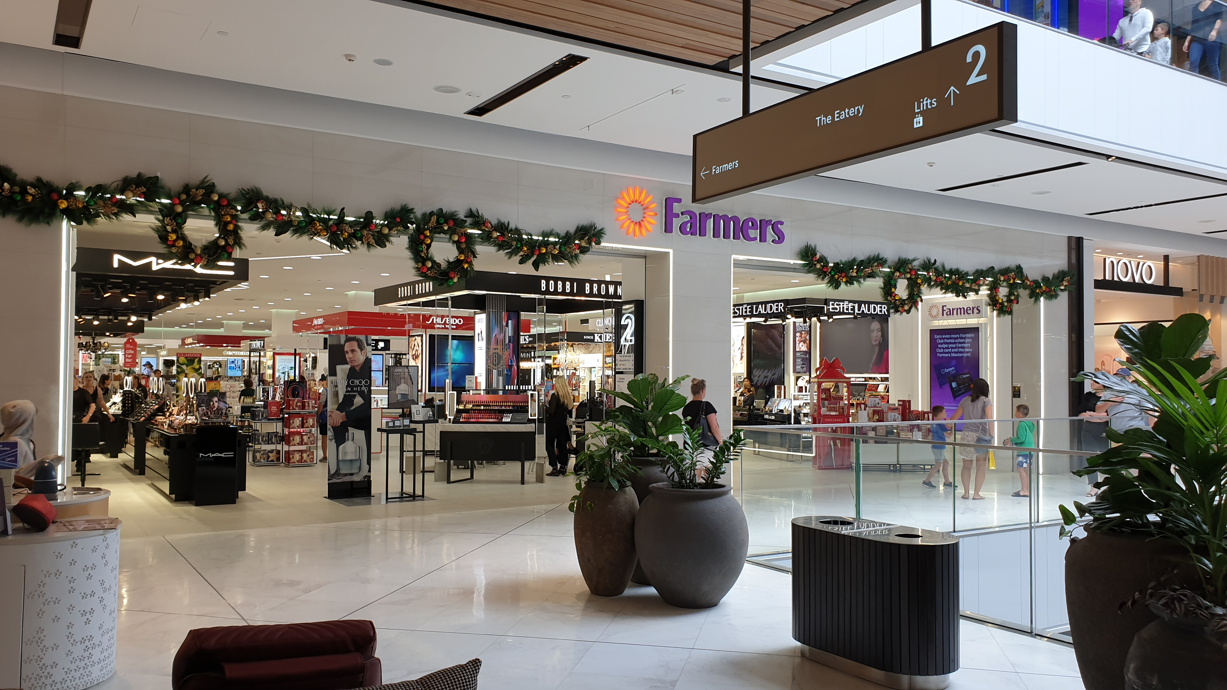 Newmarket branch of Farmers department store within Westfield Newmarket in Auckland, New Zealand in 2019.